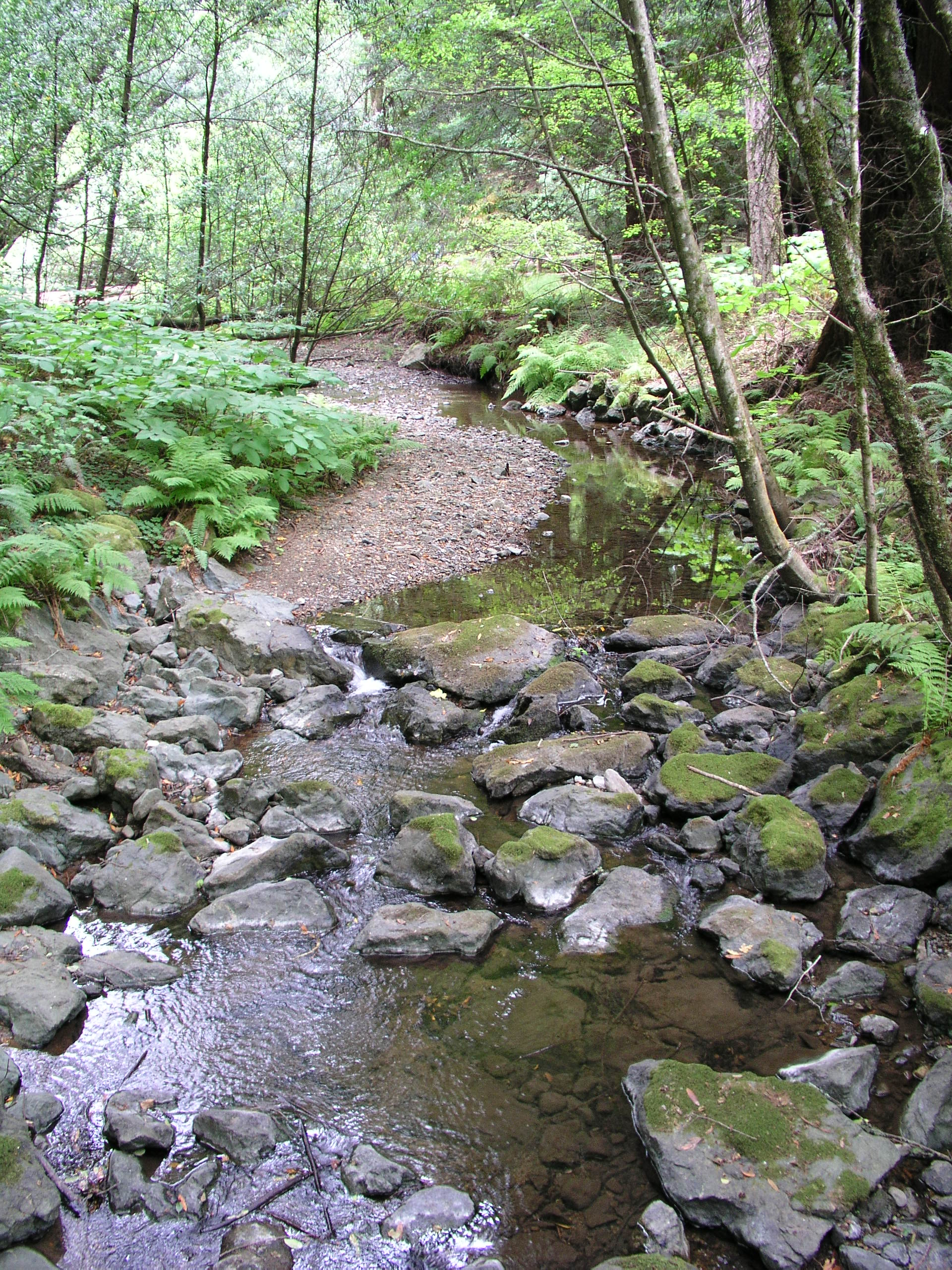 stream in the redwoods: stream in Muir Woods